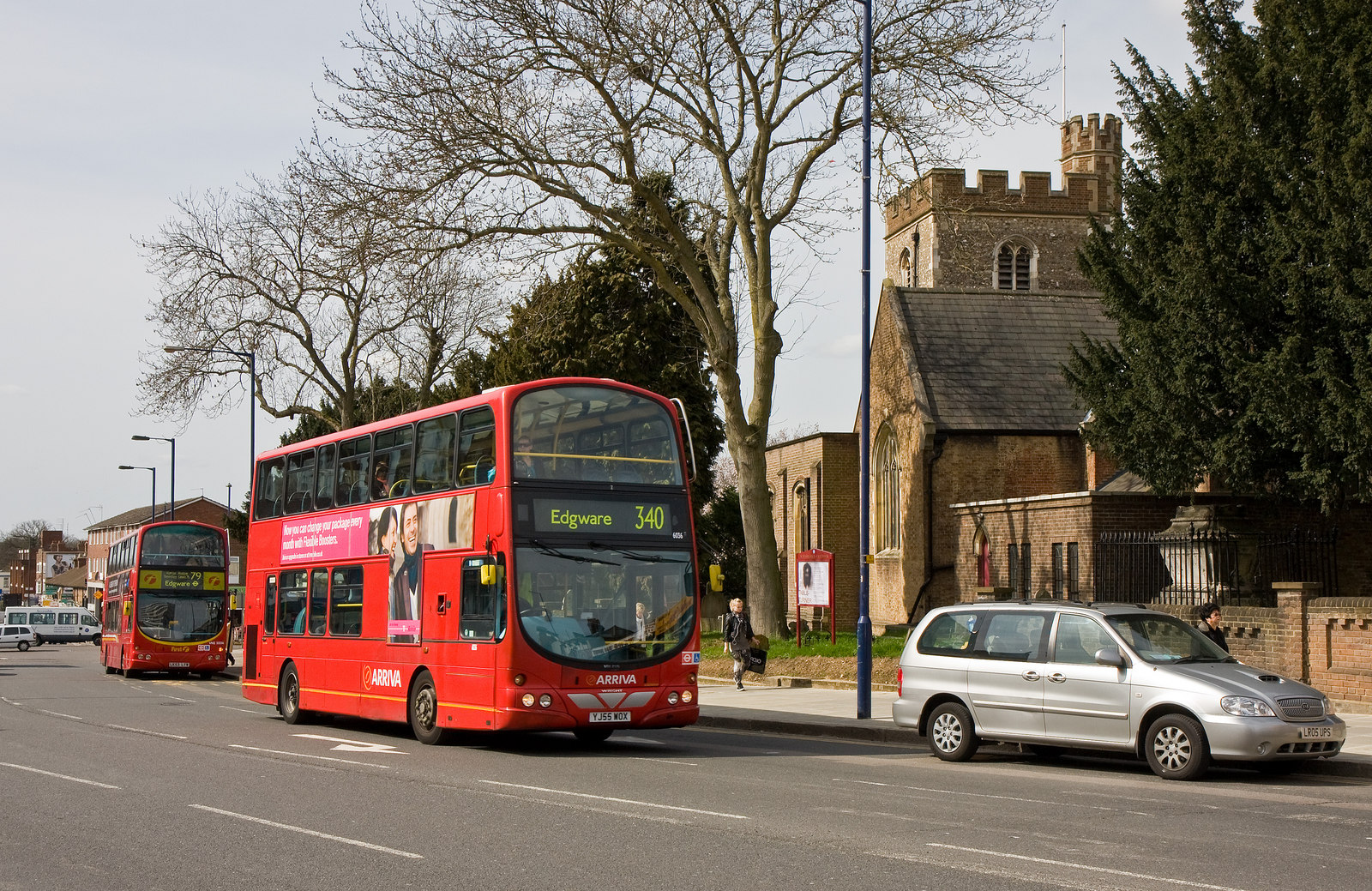 Two Wright Gemini buses pass St Margaret of Antioch parish church, Station Road, Edgware, Middlesex. The leading bus is on route 340 from Harrow to Edgware operated by Arriva The Shires. The bus following it is on route 79 from Alperton to Edgware, operated by FirstGroup.